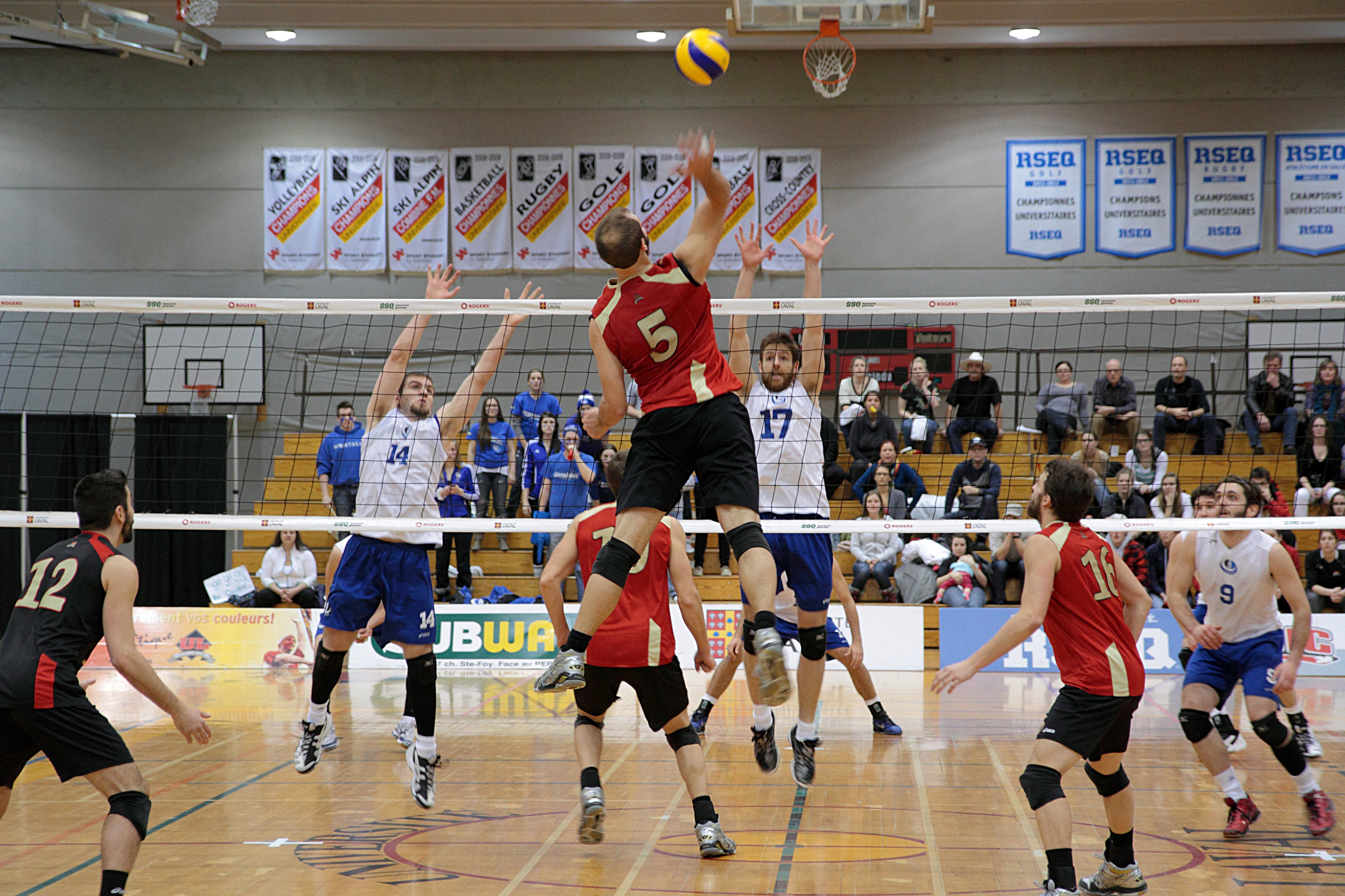 Volleyball players of Laval Rouge et Or and Montreal Carabins, PEPS